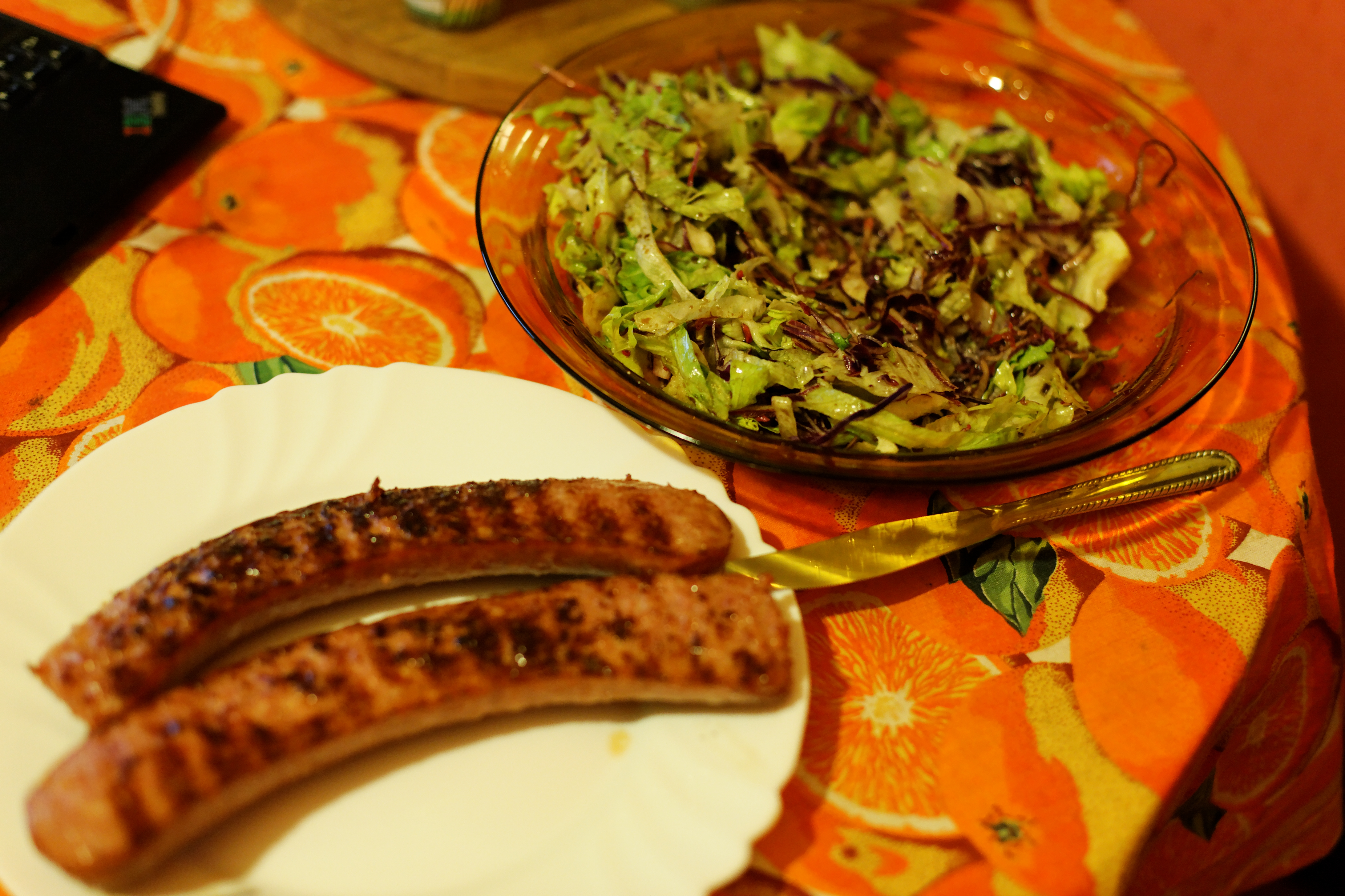 Beerwurst with iceberg salad